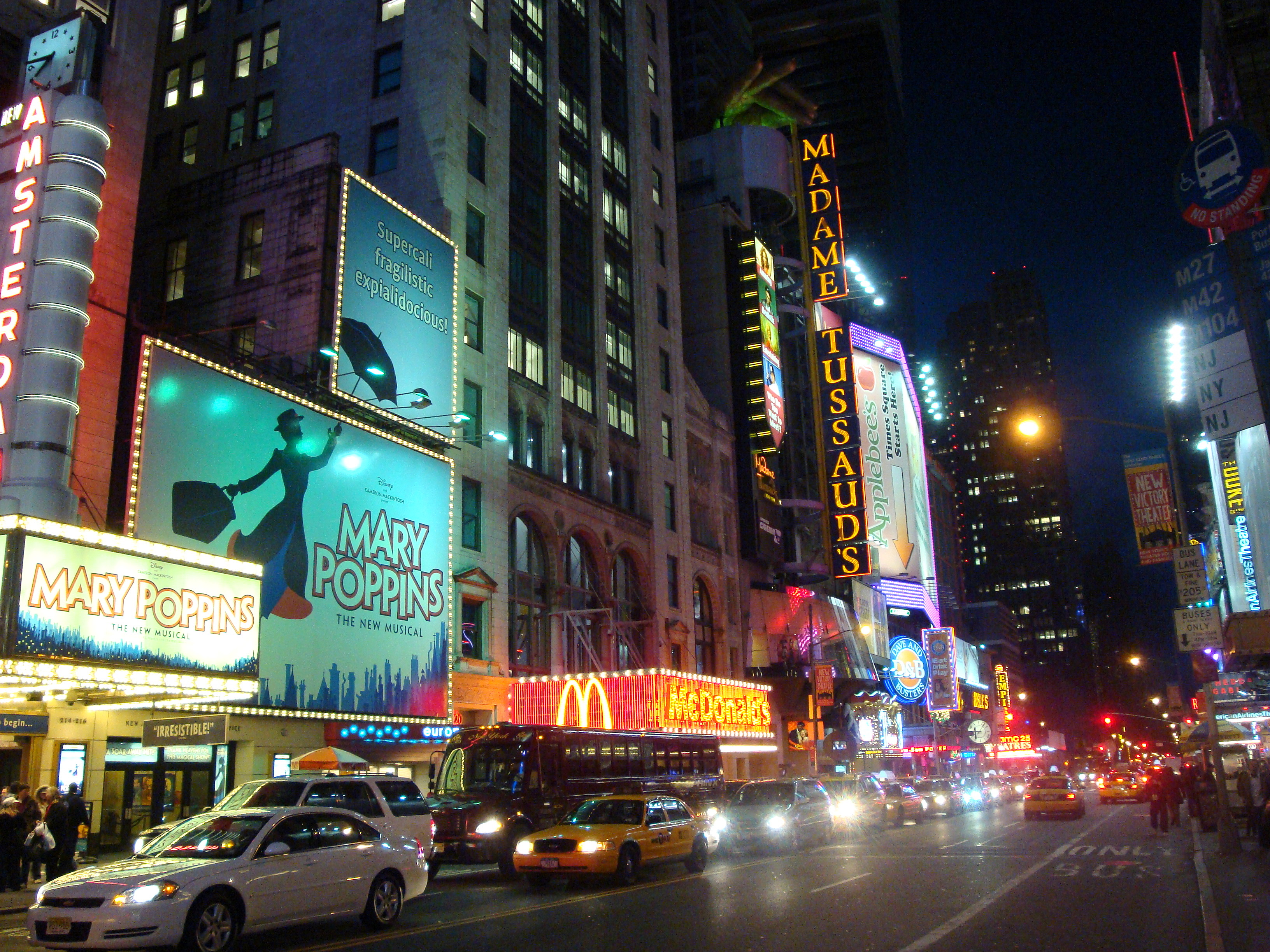 Night on 42nd Street in Manhattan showing signs for New Amsterdam Theatre, McDonald's, Madame Tussauds, Applebee's, Dave & Buster's, and New Victory Theater. March 2009 photo by John Stephen Dwyer